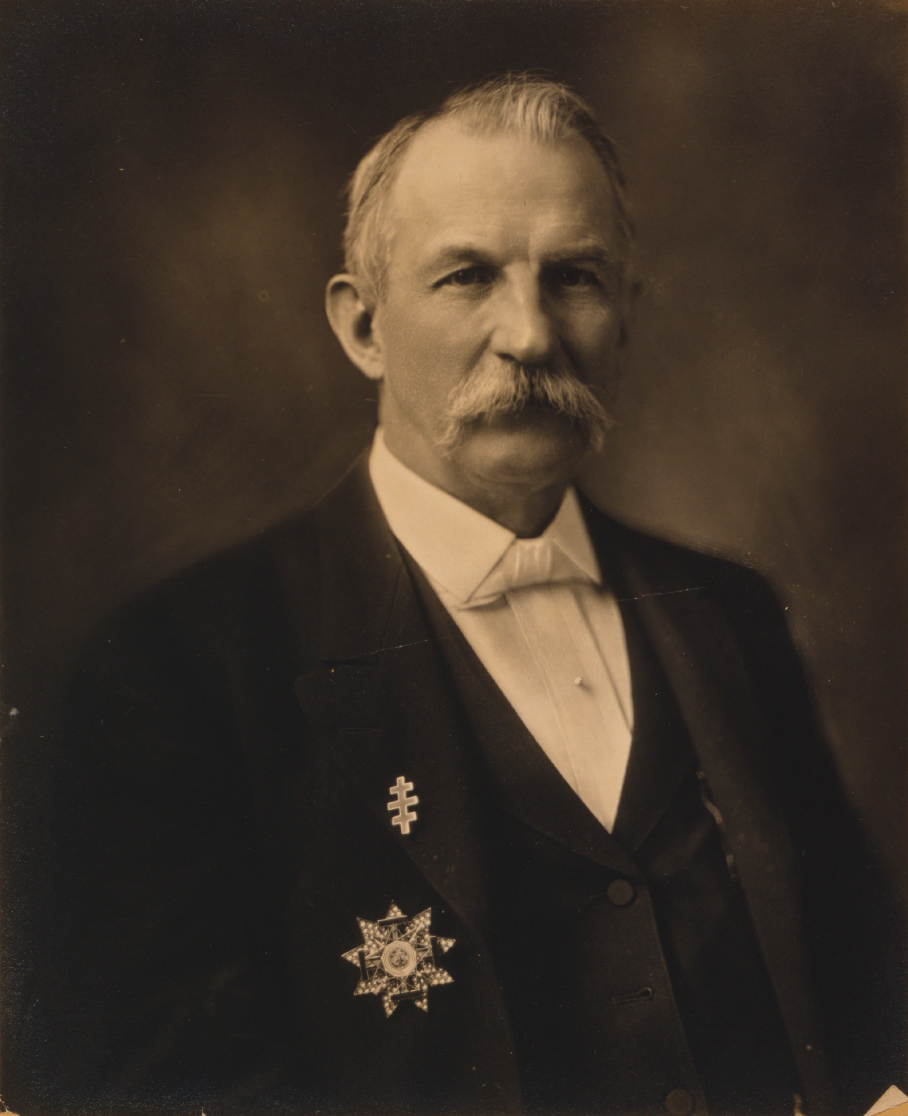 American politician James D. Richardson, Minority Leader of the United States House of Representatives.